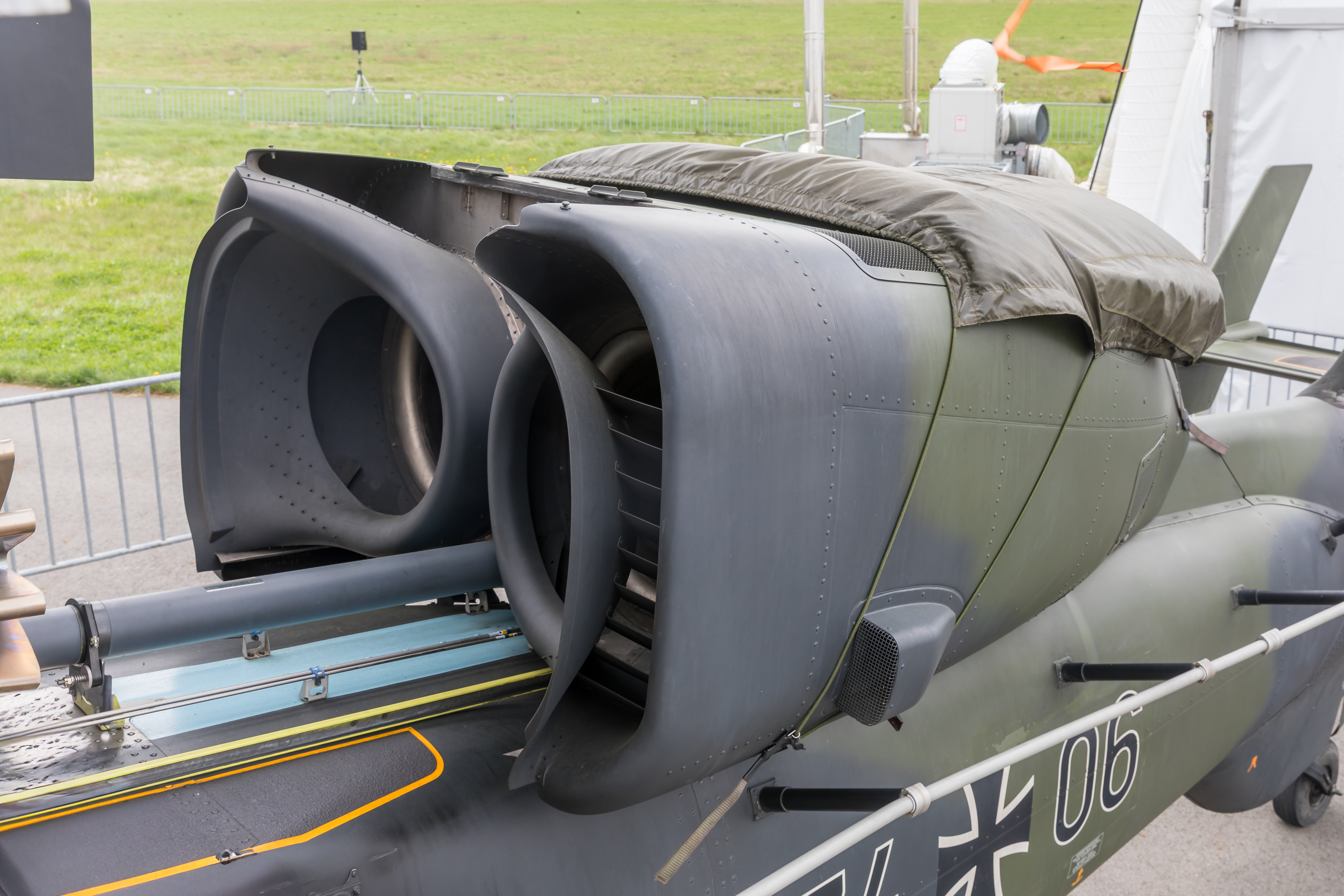 ILA 2018